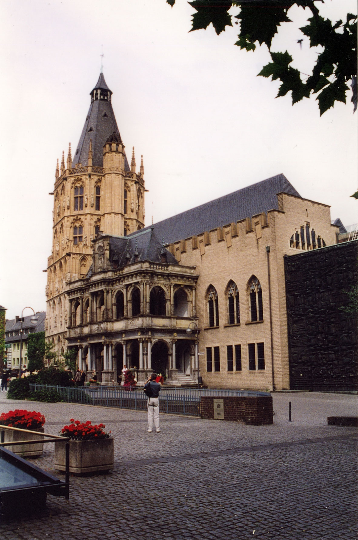 Rathaus (Town Hall), Köln. Photo taken from SW